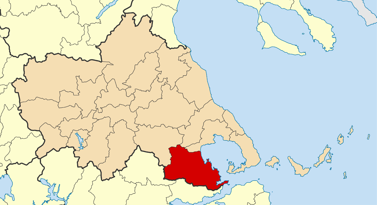 Locator map for Almyros municipality in Greek region Thessaly (2011)